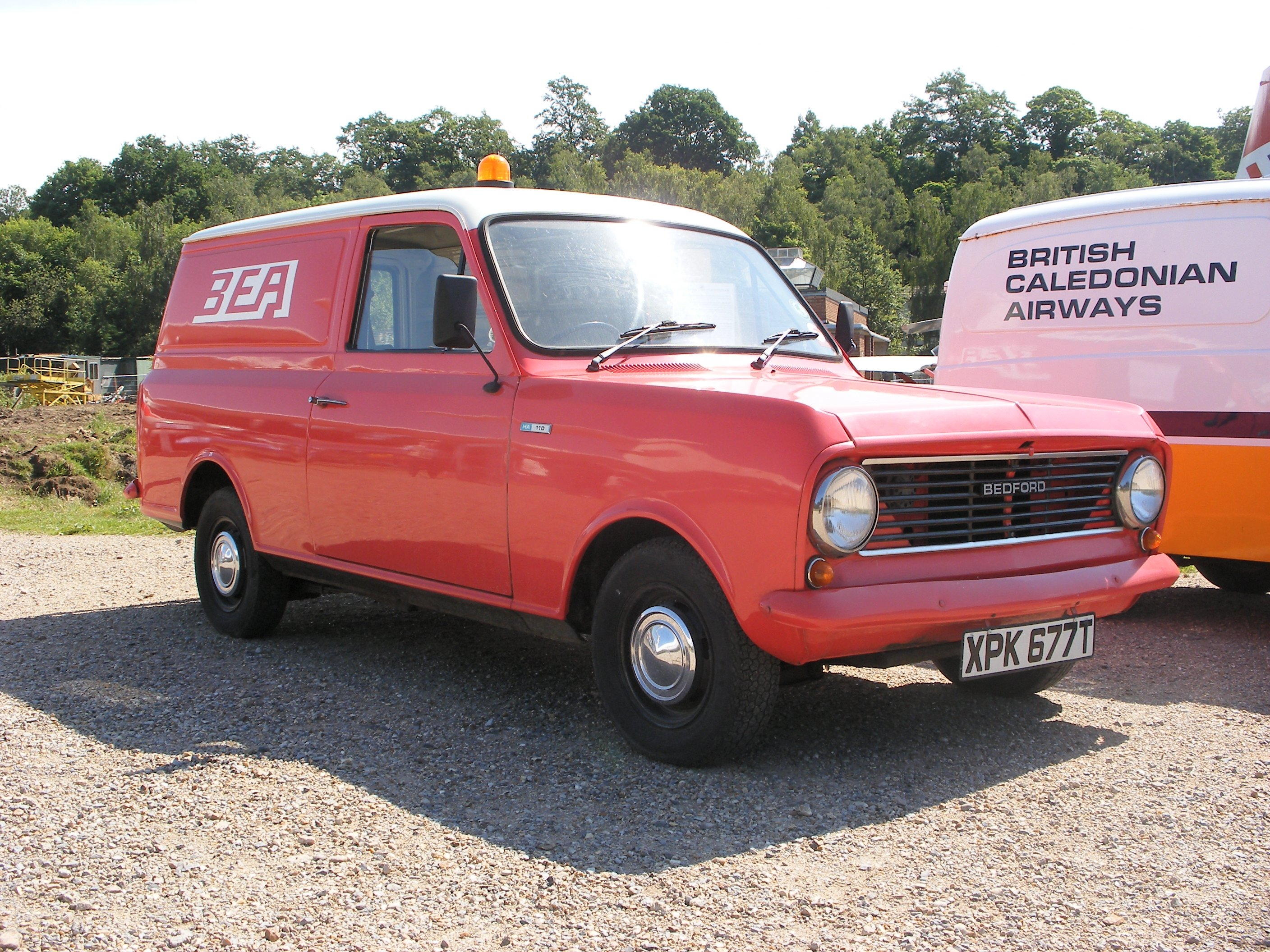 1978 Bedford HA110 Van at Brooklands Museum